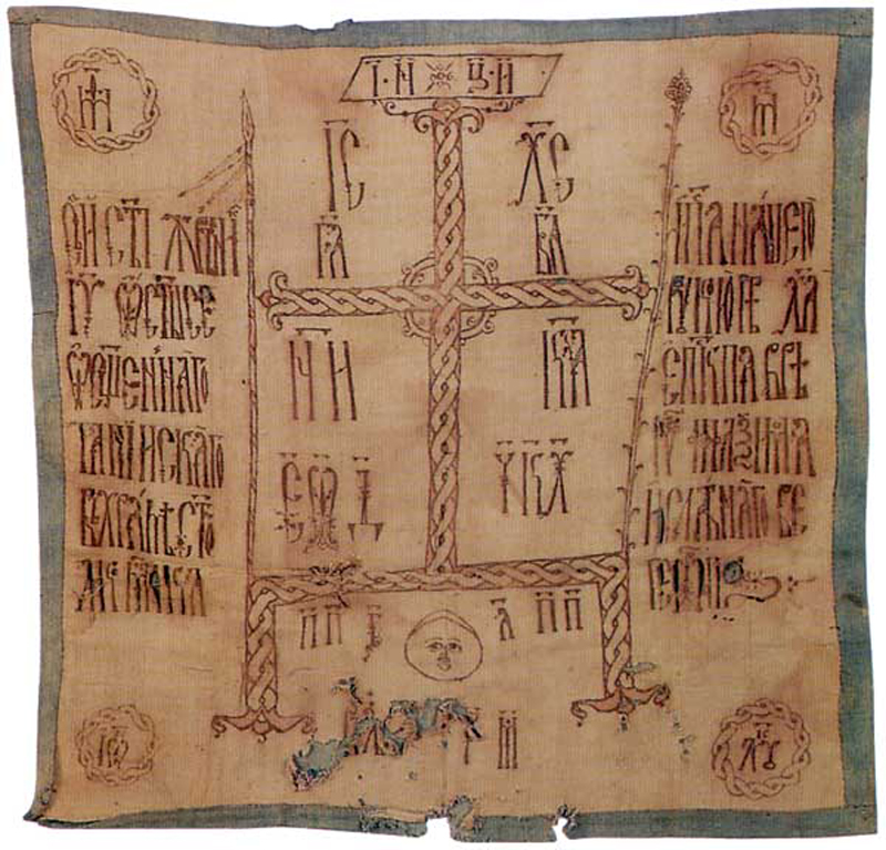 Fabric Altar in Orthodox worship